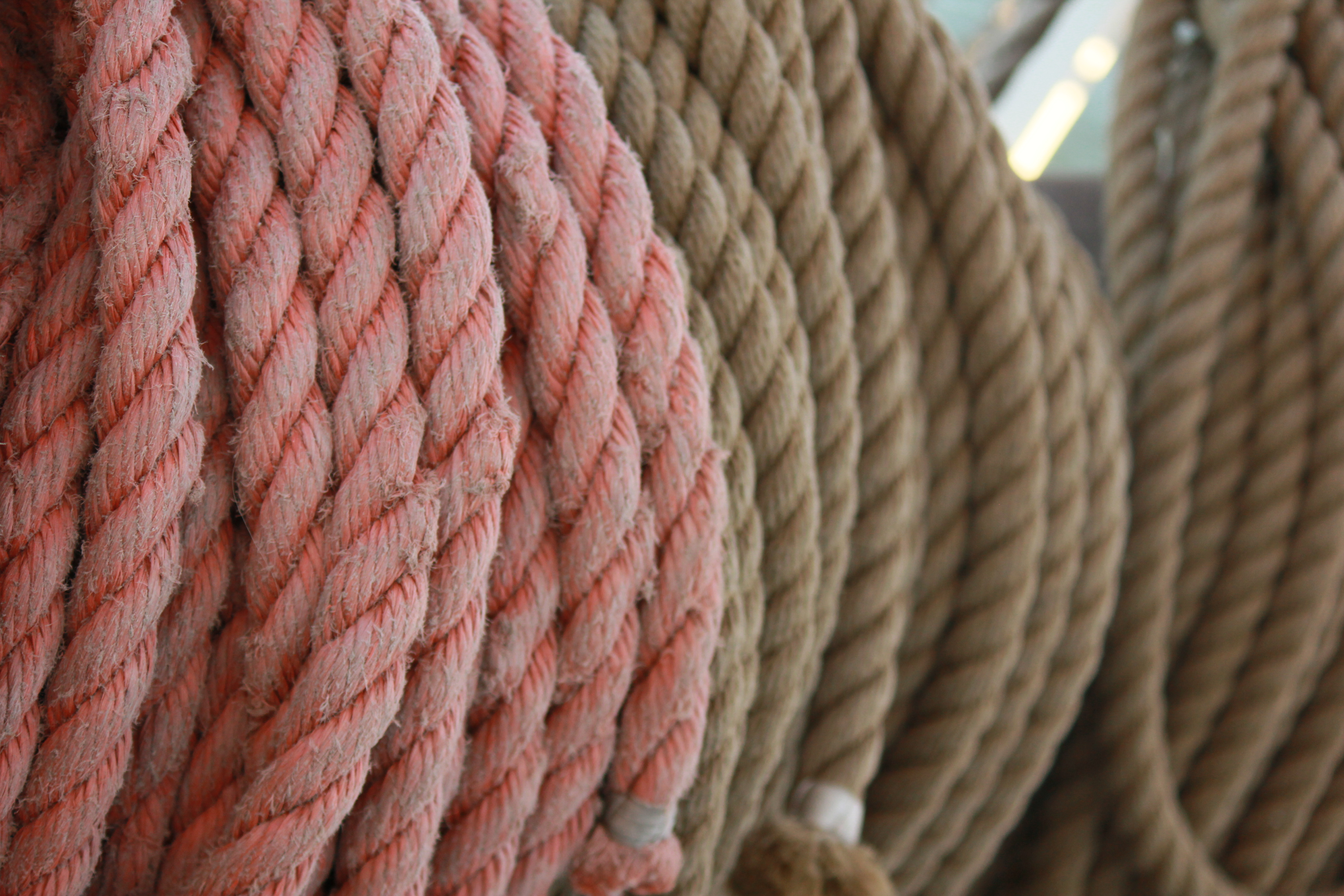 Rope